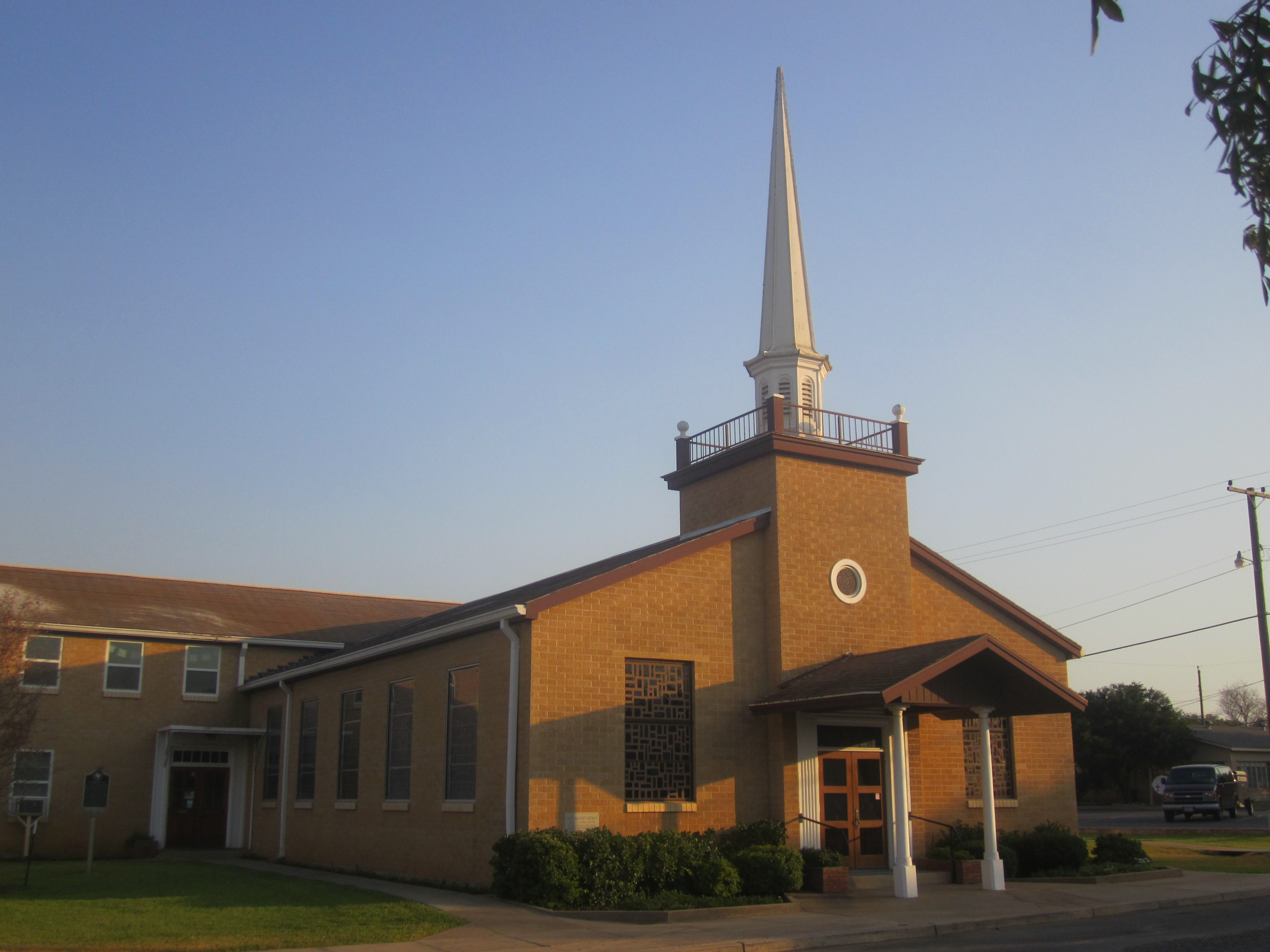 I took photo with Canon camera of First Baptist Church in Cotulla, TX.